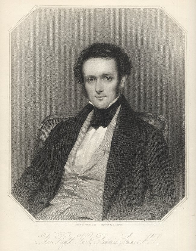 Sir Frederick Shaw, 3rd Baronet was an Irish Conservative MP Engraver E.Scriven Drawn by F.Cruickshank Published by George Virtue circa 1846 for Portraits of Eminent Conservatives & Statesmen